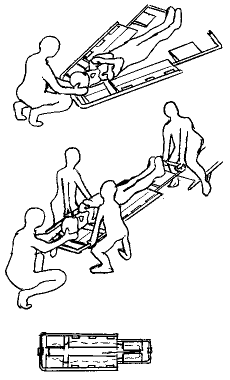 Scoop stretcher: principle of use. The casualty is represented with a cervical collar. The top picture represents the putting of the stretcher, the middle picture the casualty lifting with five team members (one is not seen and is pushing the normal stretcher on the right), the bottom picture represents a view from below.